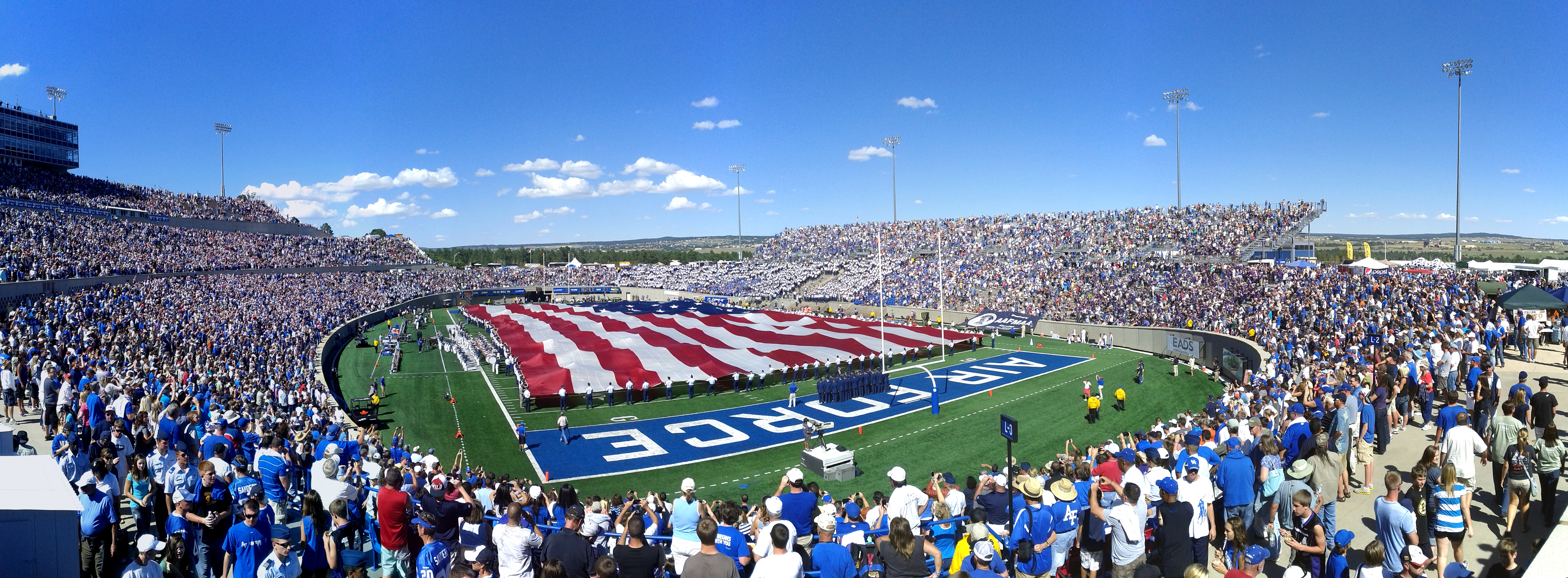 Air Force Academy Stadium during a 2011 football game on Sept 11th.